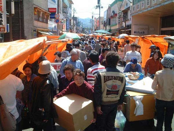 Picture from market in Wajima